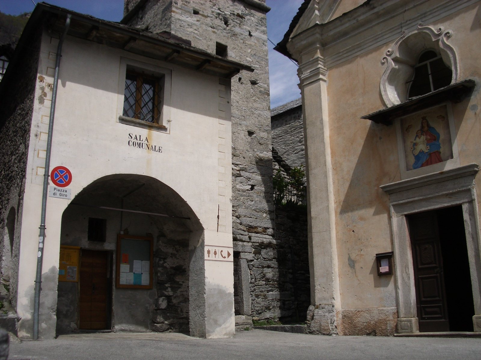 Corippo, Valle Verzasca, Switzerland self-made, May 2006